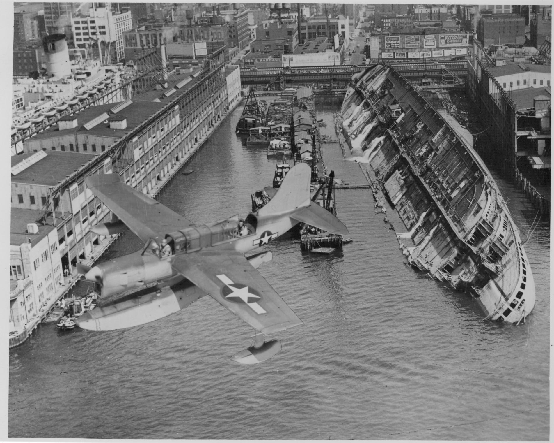 A U.S. Navy Curtiss SO3C Seamew in flight. Note that this photo is obviously a photomontage, using the wreck of the Normandie liner as a backgrund. Official description: "A SO3C Seamew flies over the wreckage of Lafayette (ex Normandie), a French passenger liner that was procured by the United States, 17 August 1943 (wrong: 12 December 1941). While being converted to a troop ship, it caught fire at the New York Passenger Ship Terminal."